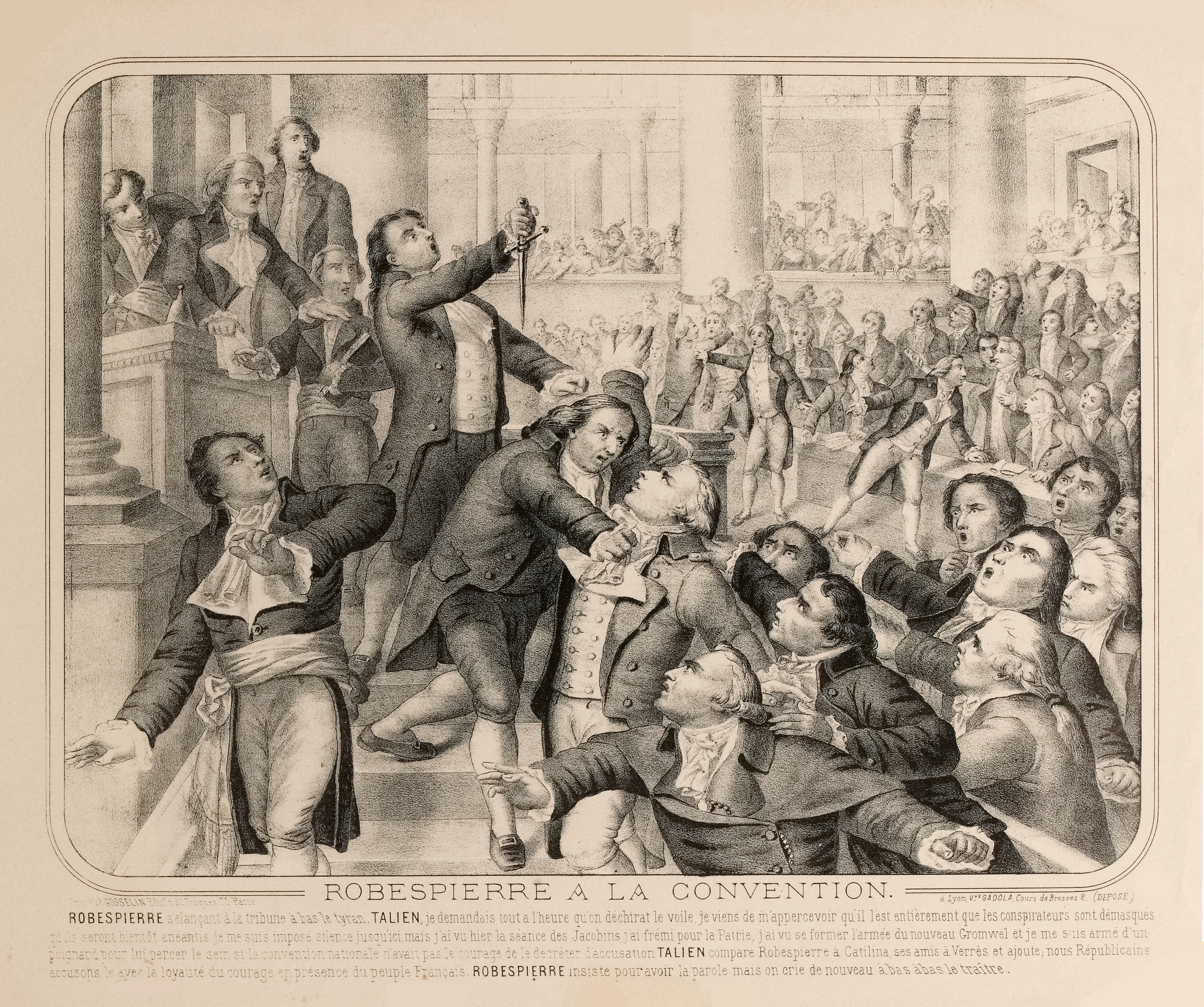 9 Thermidor Year II at the National Convention.